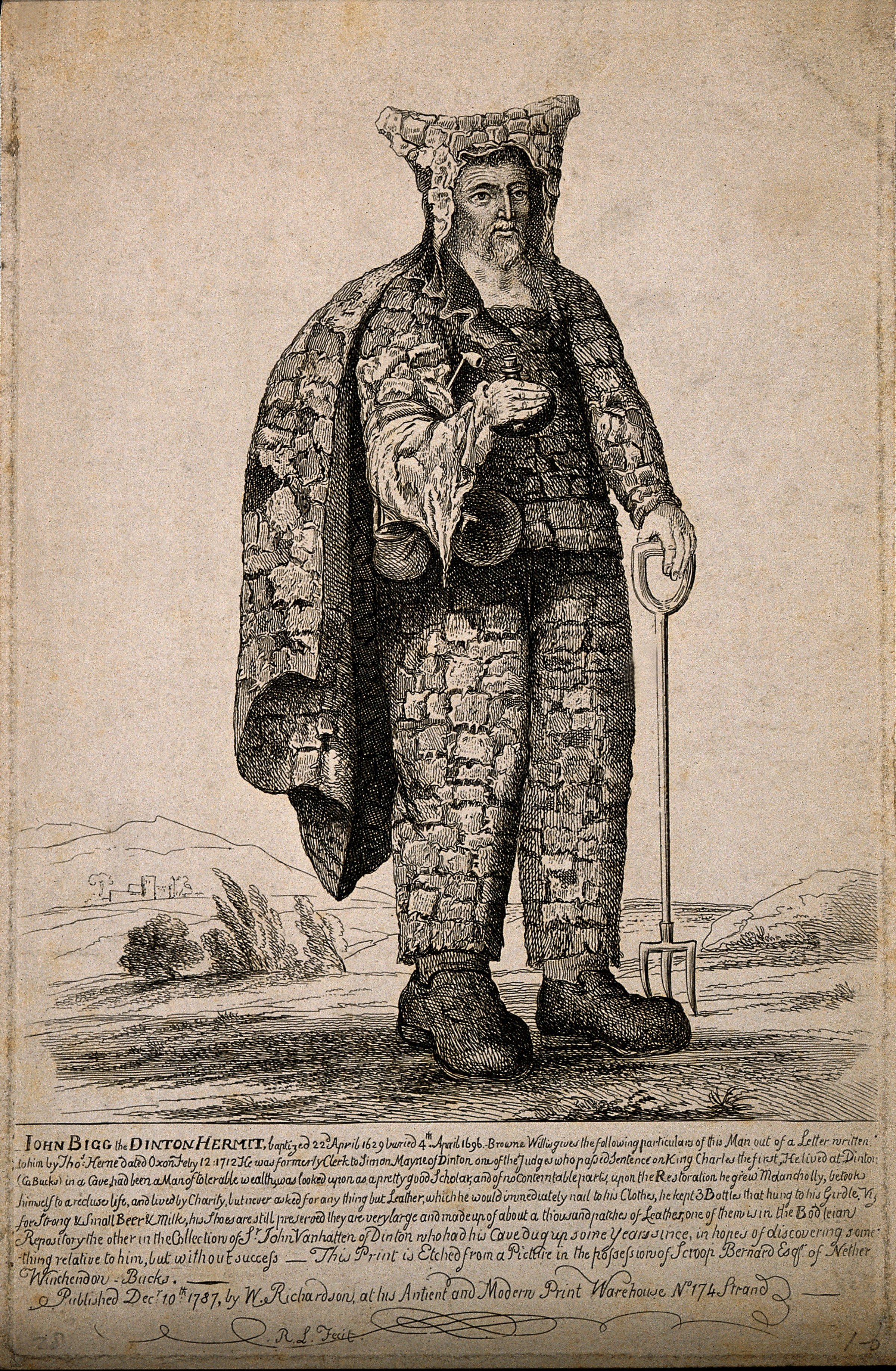 John Bigg, an eccentric hermit. Etching, 1787. Iconographic Collections Keywords: John Bigg; portrait prints; eccentrics and eccentricities; bigg, john, ca.1629-1696; etchings; hermits